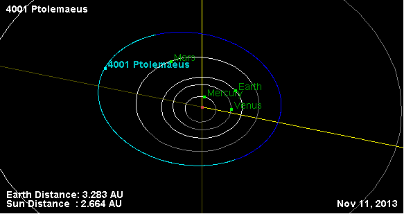 This diagram illustrates the orbit of the asteroid 4001 Ptolemaeus.